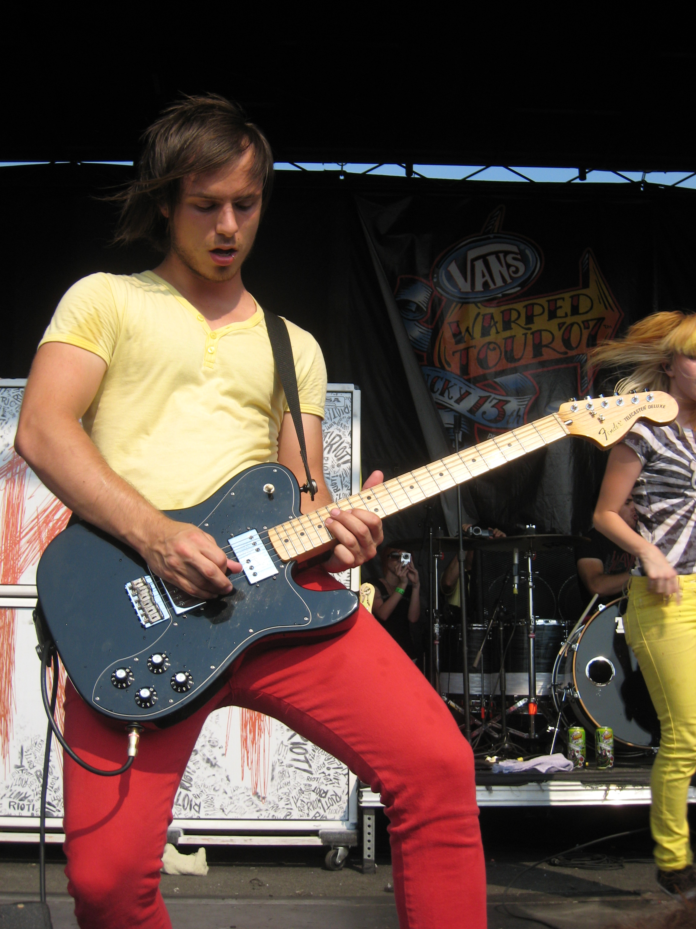 Josh Farro, lead guitarist and backing vocalist for Paramore, playing at the Van's Warped Tour, 2007 in Tweeter Center at the Waterfront in Camden, NJ.